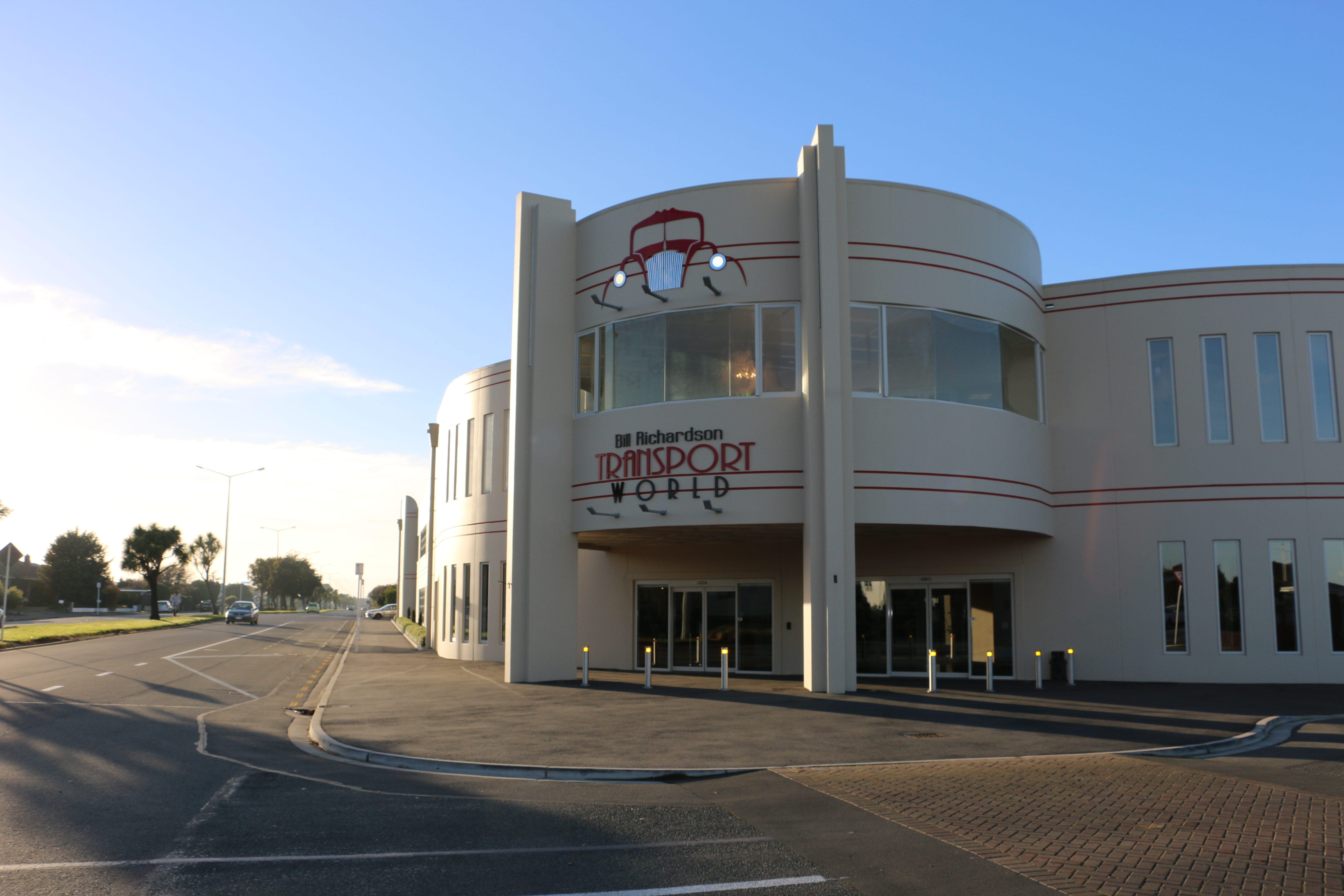 Bill Richardson Transport World front entrance exterior